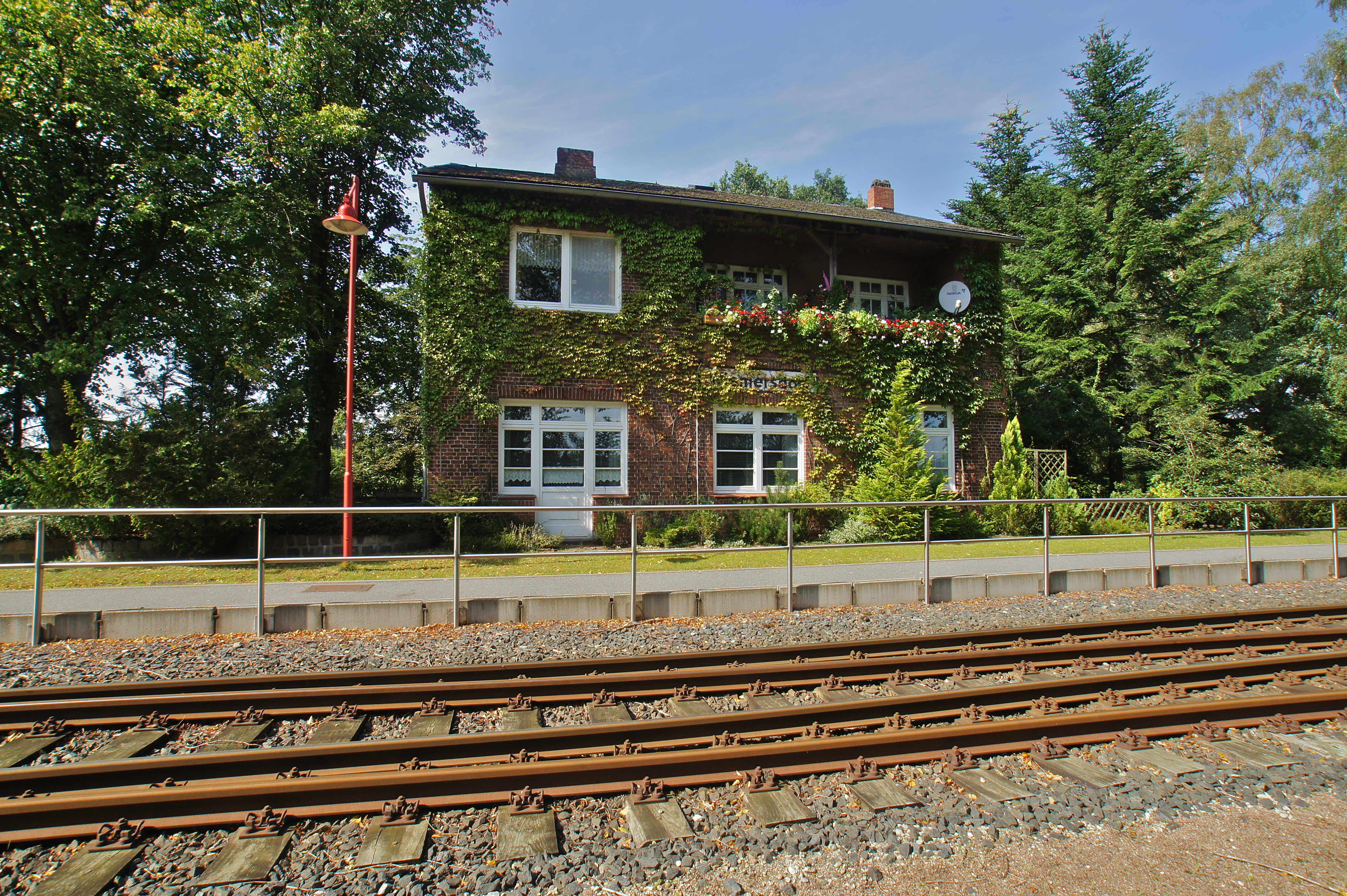 Wiemersdorf, Germany: Former railway station